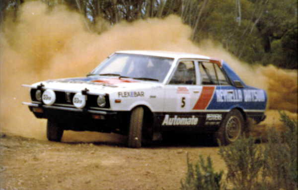 Datsun Stanza, Datsport Rally Team 1980 - Barry Burns (Driver) and David Milne (Co-Driver) 1980 and 1981 South Australian Rally Champions